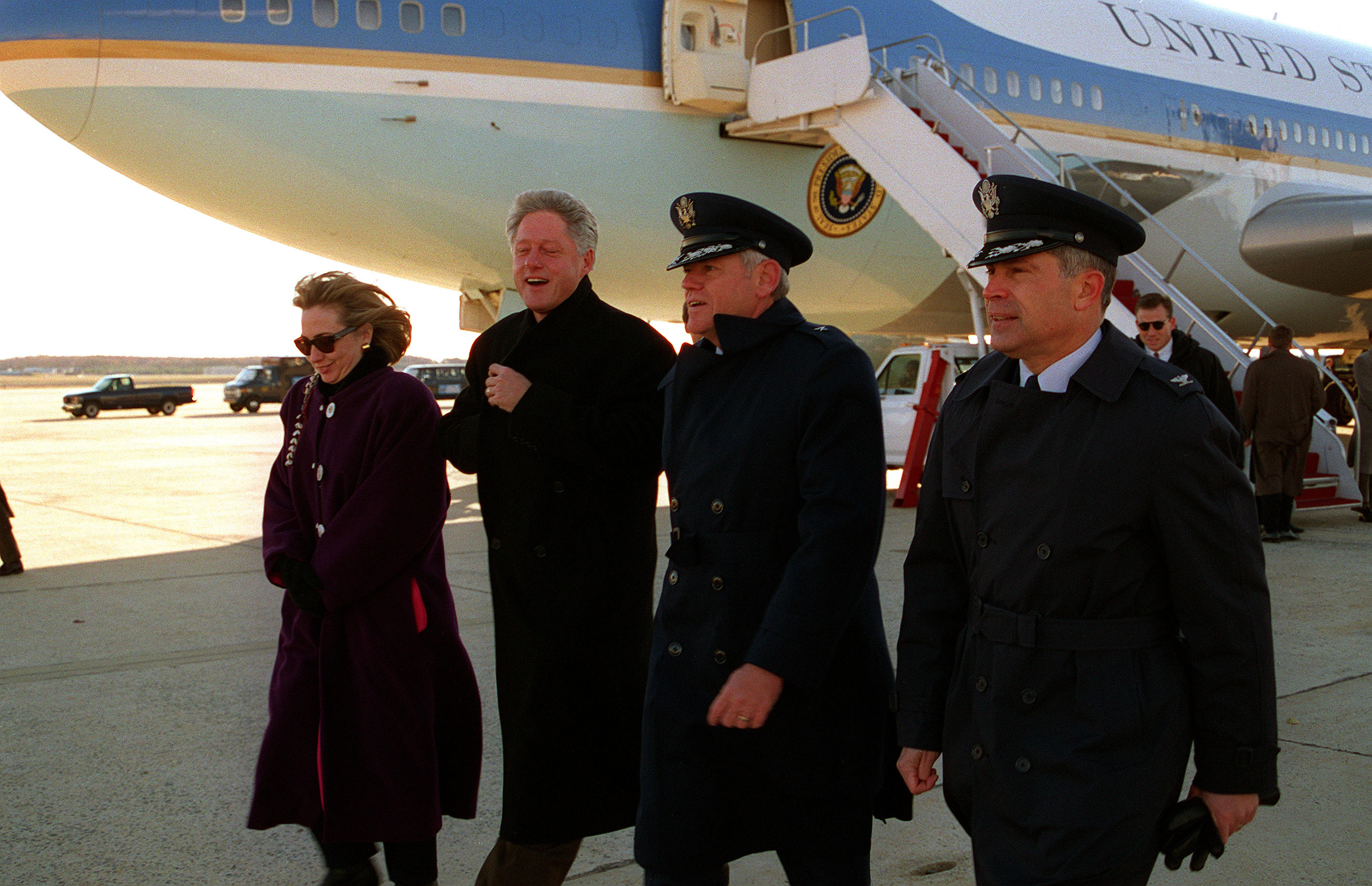 President William Jefferson Clinton and First Lady Hillary Clinton are escorted from Air Force One, in the background, to the Marine One helicopter by Brig. General Lichte and Colonel Skorupa. Andrews Air Force Base.